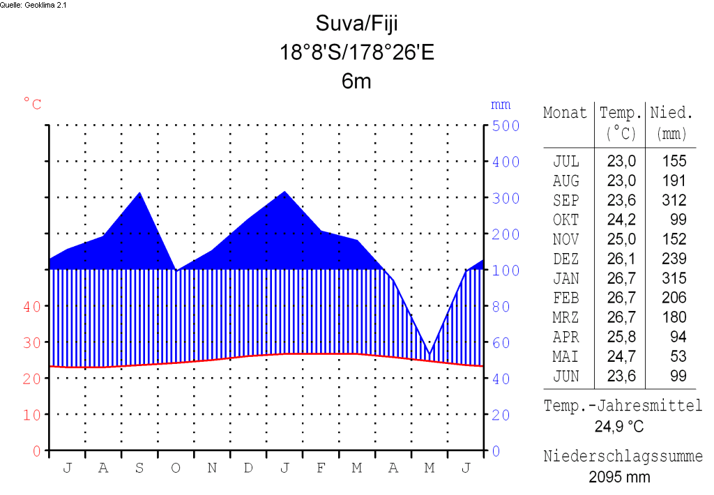 climate chart in the format by Walter and Lieth, metric, °Celsisus and millimeters, made with Geoklima 2.1